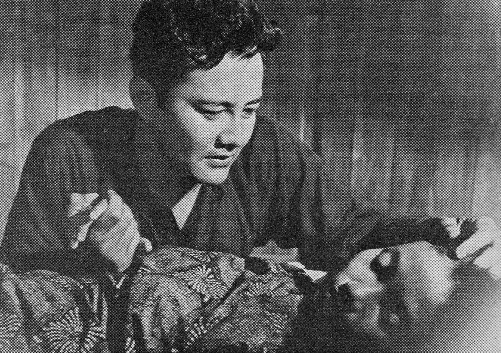 Amin (Bambang Hermanto) holding his beloved Marilah (Lies Noor) as she is sick with malaria; a scene from Rajuan Alam